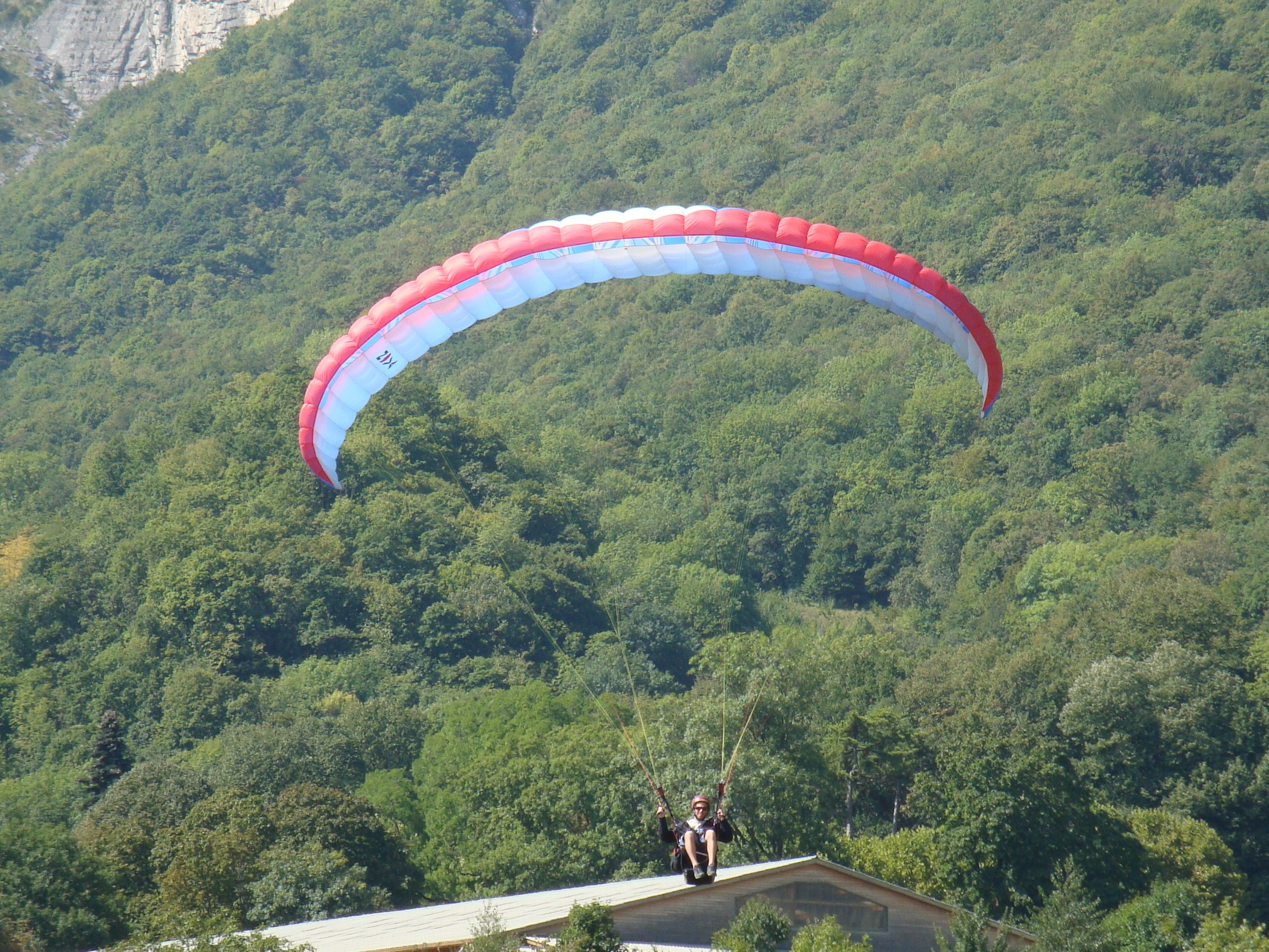 Paraglider - Nova Primax